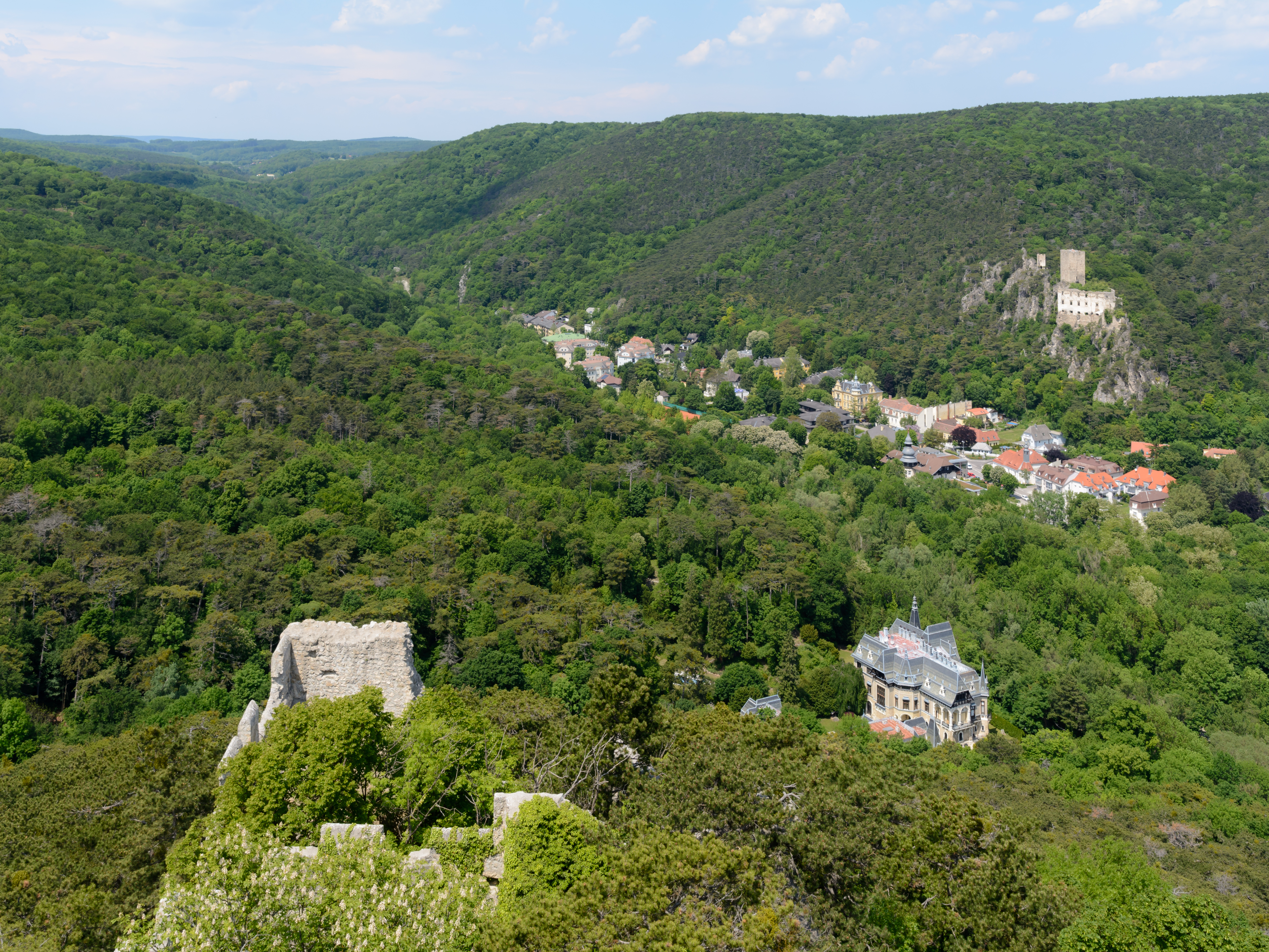 View from Rauheneck Castle to the Helenental near Baden bei Wien, Lower Austria